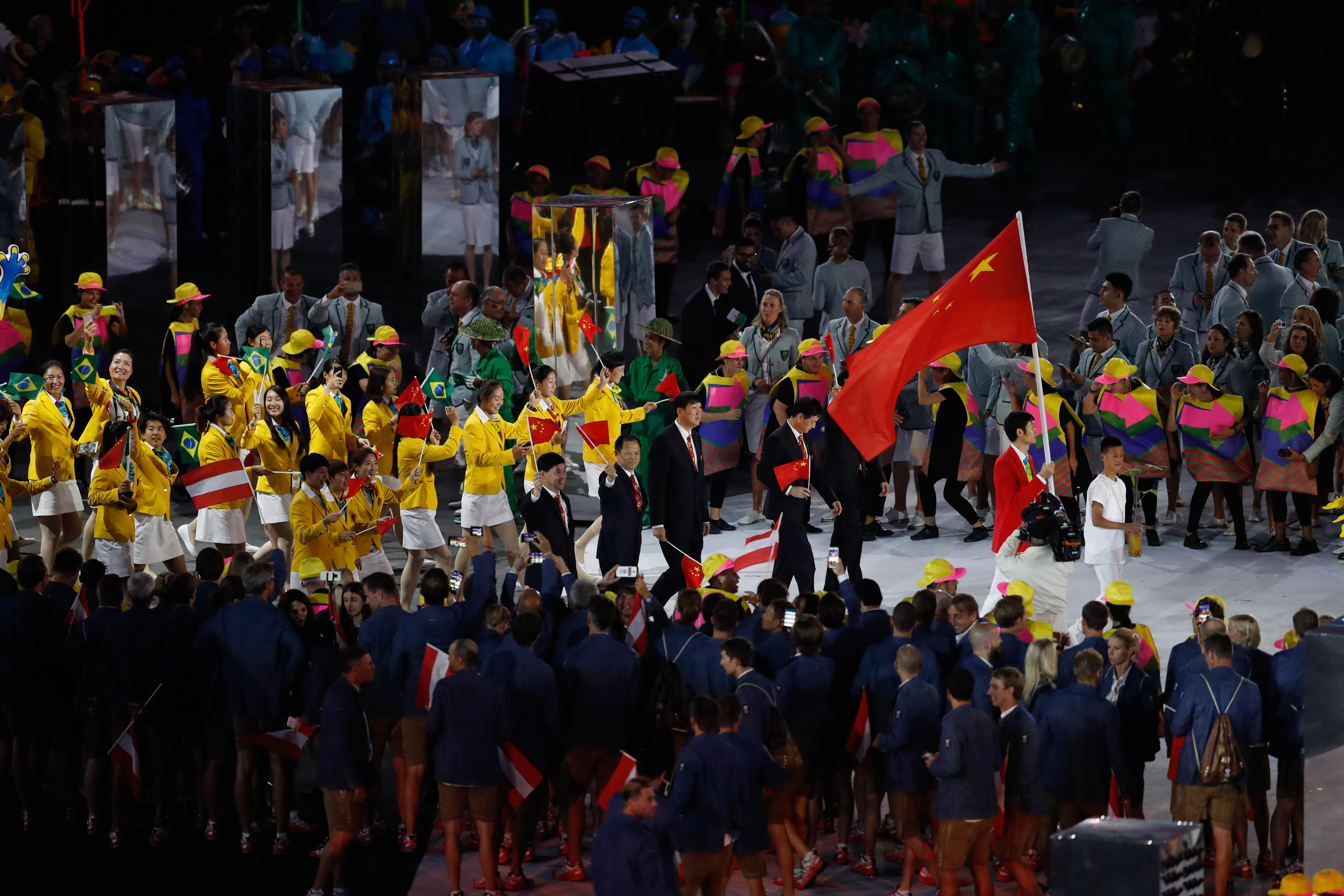 Rio de Janeiro - Cerimônia de abertura dos Jogos Olímpicos Rio 2016 no Estádio do Maracanã. (Fernando Frazão/Agência Brasil)